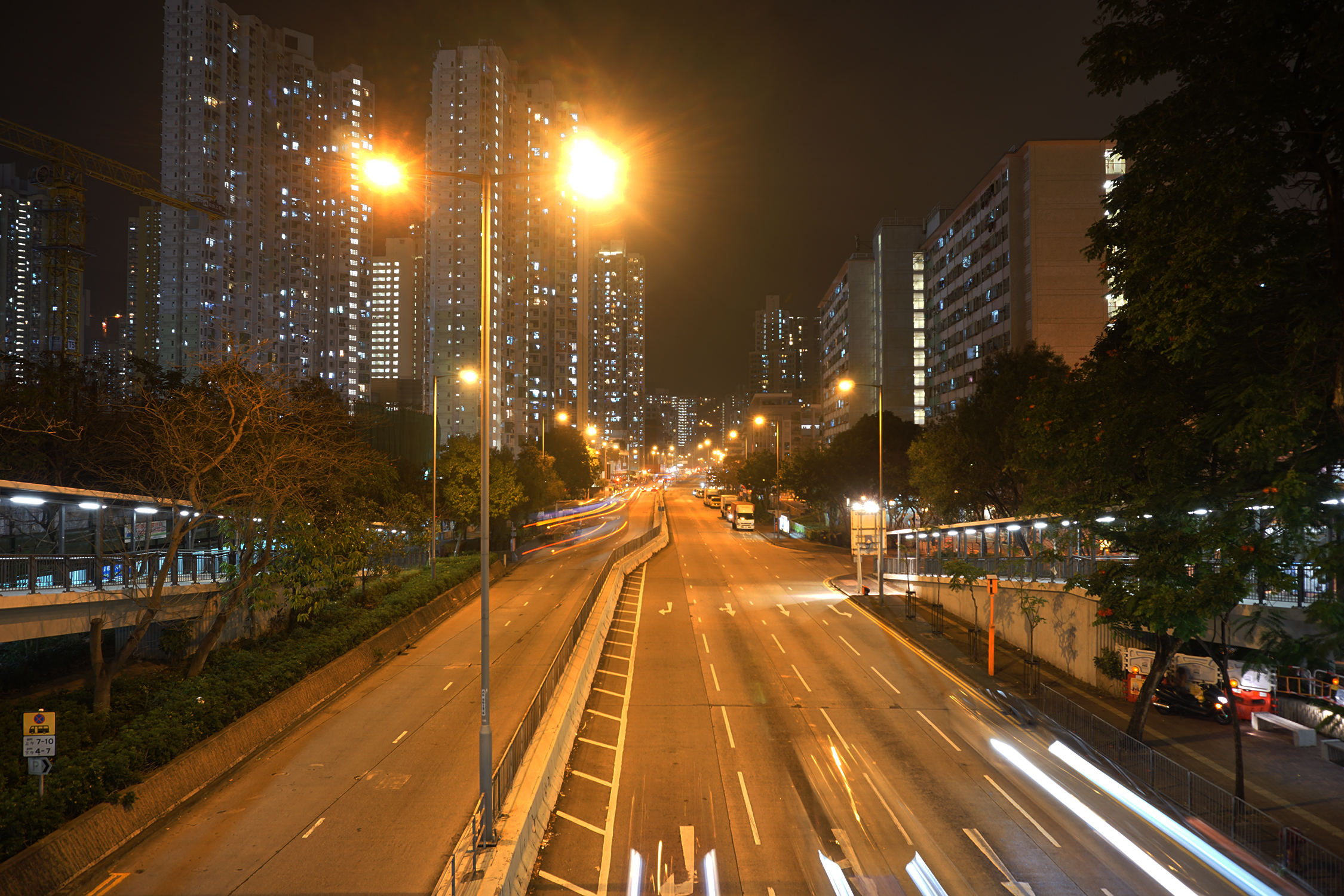 Tonkin Street in Cheung Sha Wan, Hong Kong.